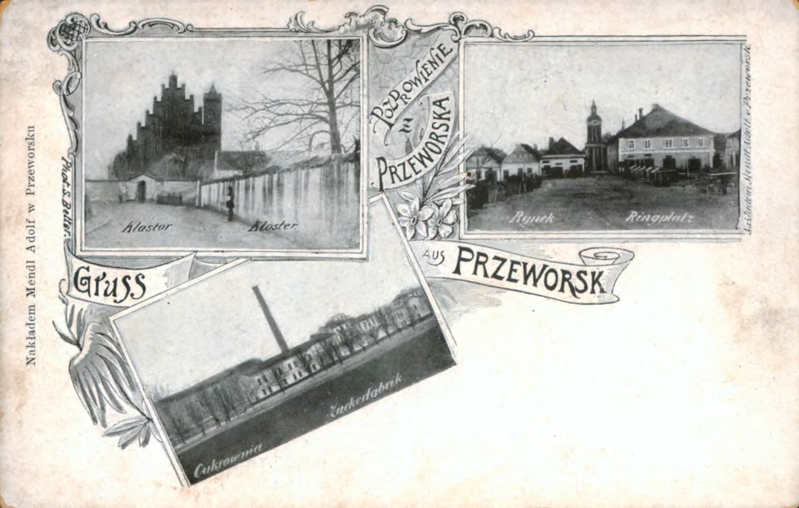 Greeting from Przeworsk